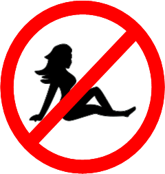 No nudism symbol based on "mudflap girl" -- One variation of the unclad female silouette sometimes seen on the mudflaps behind the wheels of commercial trucks in North America.